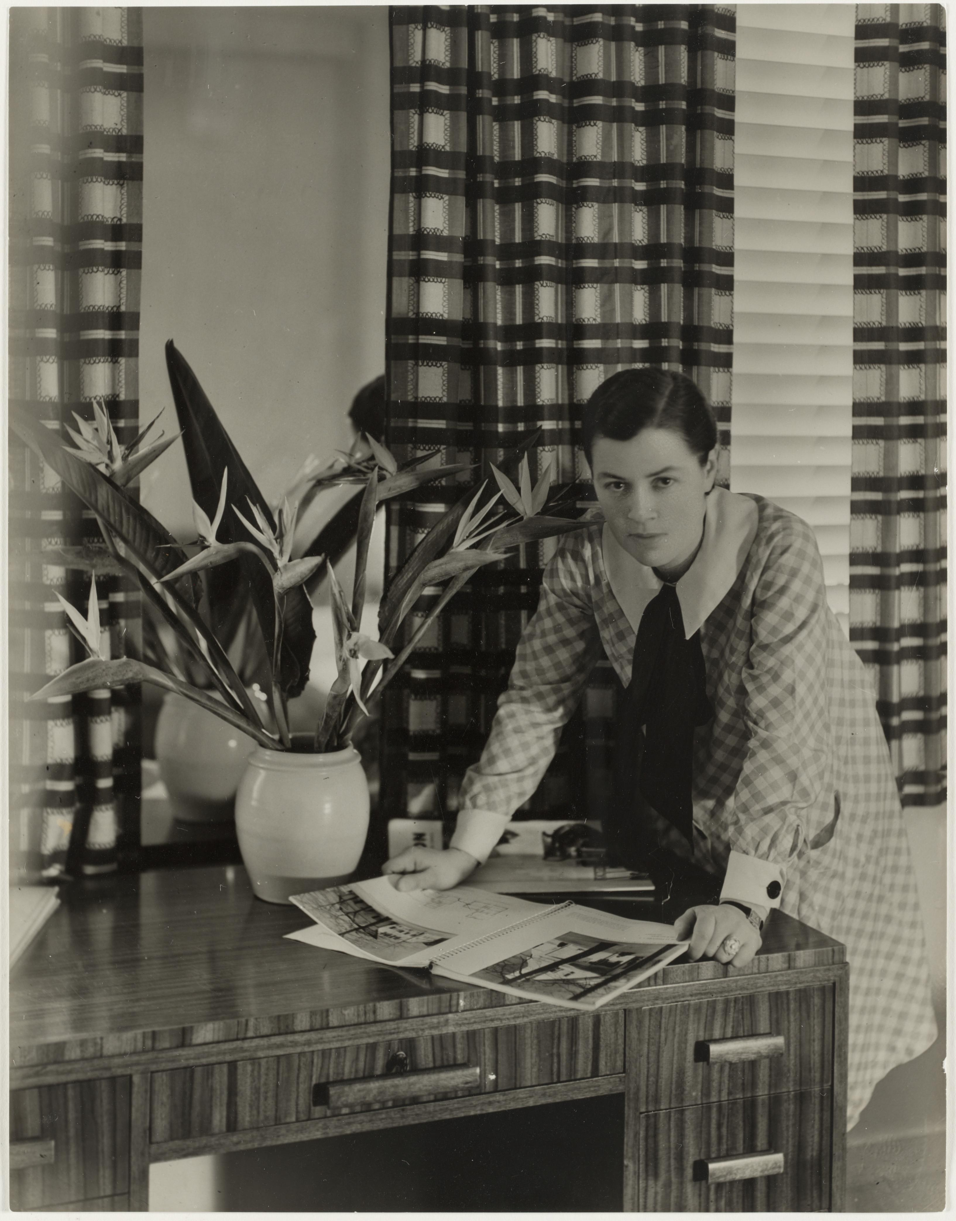 Format: Photograph Find more detailed information about this photographic collection: .au/item/itemDetailPaged.aspx?itemID=403297 From the collection of the State Library of New South Wales